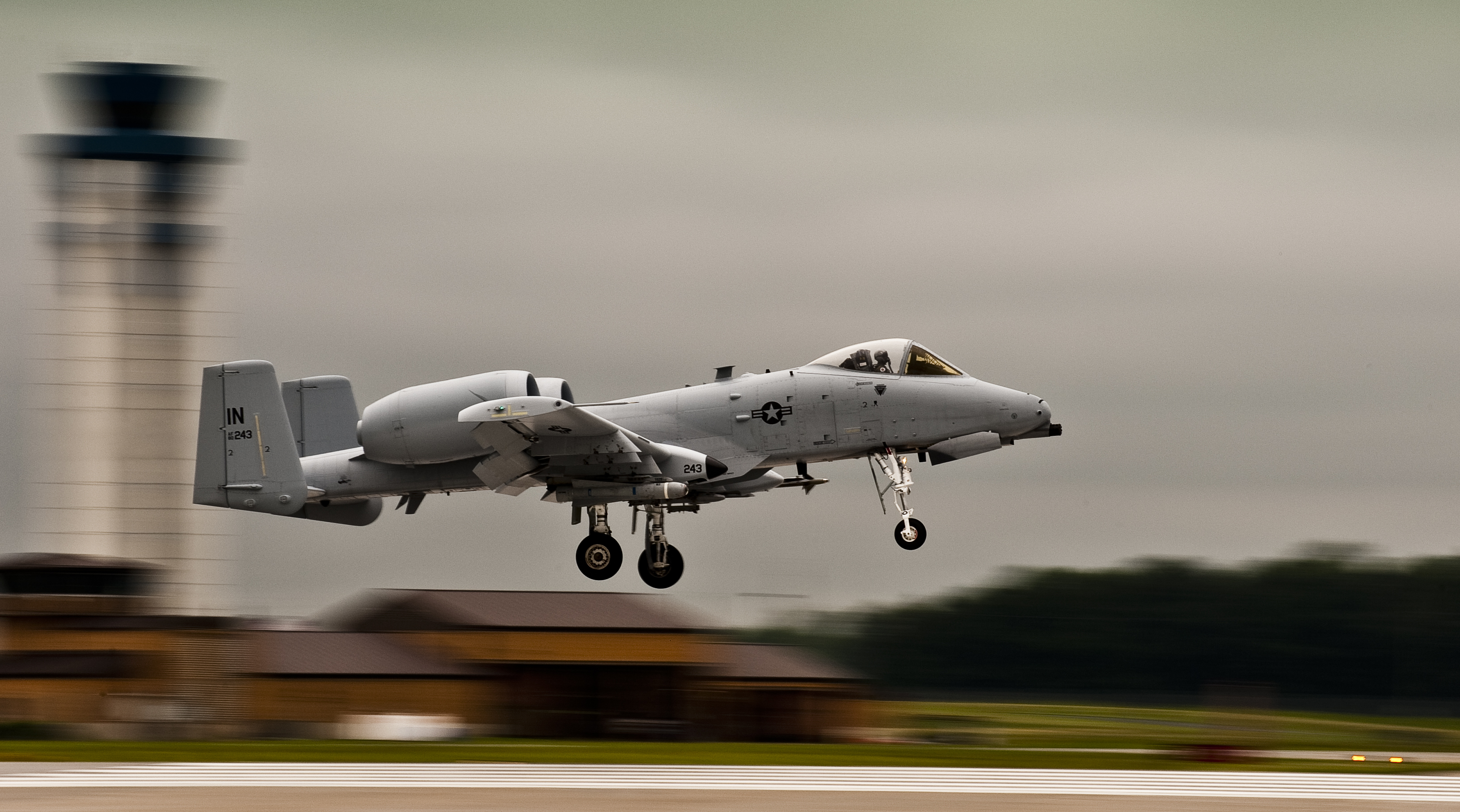 An A-10C pilot from the 163rd Fighter Squadron at the 122nd Fighter Wing in Fort Wayne, Ind., guides his A-10C Warthog in for a landing, July 7, 2015, at the Indiana Air National Guard Base, Fort Wayne, Ind. (Air National Guard photo by Staff Sgt. William Hopper)